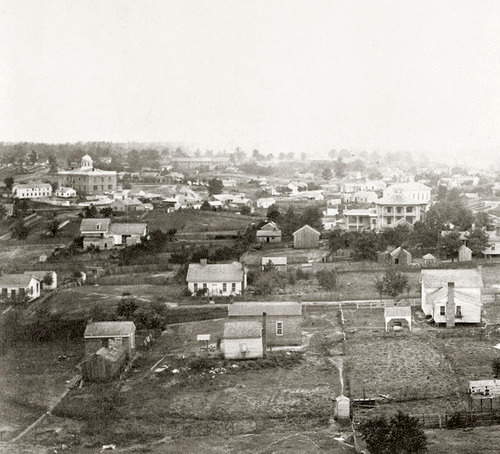 George N. Barnard climbed into the cupola of the Atlanta Female Institute in 1864 for this view of Atlanta looking southwest toward the center of the city. At the far left is the domed Atlanta Medical College with the Atlanta Machine Works visible above and to the right. Today, the Sheraton Atlanta Hotel near the corner of Ellis and Courtland Streets occupies the site of the Atlanta Female Institute.